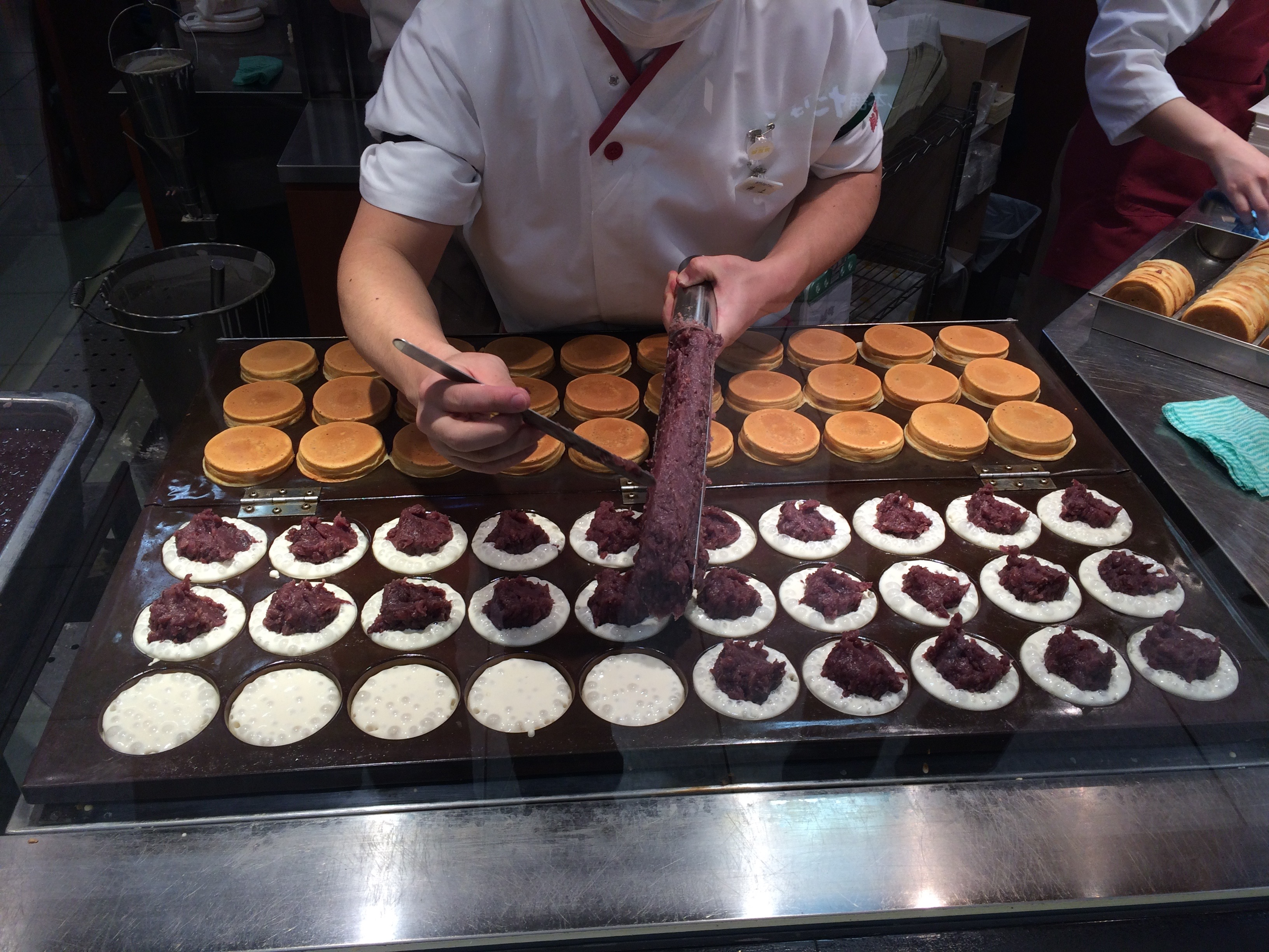 iLife in Japan 2015